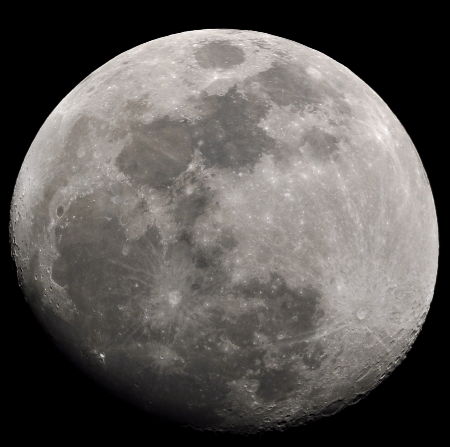 NO.14 day phase of the Moon 27/02/2010. To take a picture in Taichung County of Taiwan.